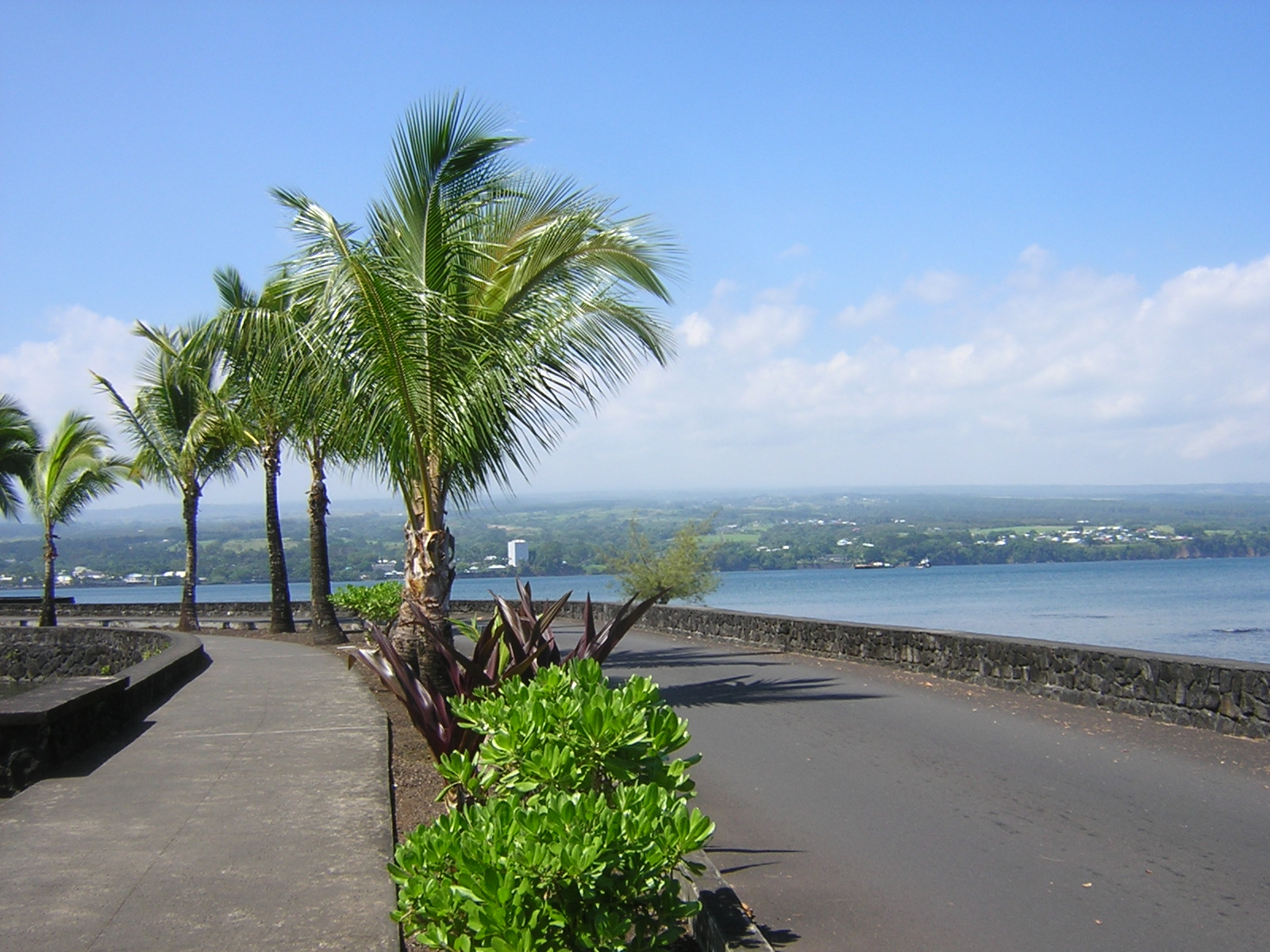 Original filename was "Banyan Drive, Hilo Bay". Original caption states, "This was taken 10/15/06 around 11:00 AM, after calling family and friends and confirming our good health. Nice sunny day in Hilo." Pictured street is actually Lihiwai St, which intersects Banyan Drive.